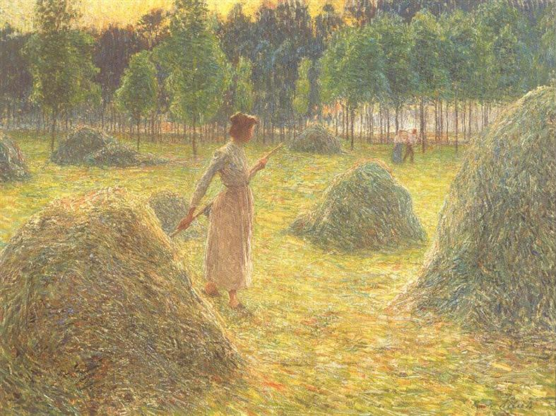 Painting "Hay stacks" (1905) by Emile Claus